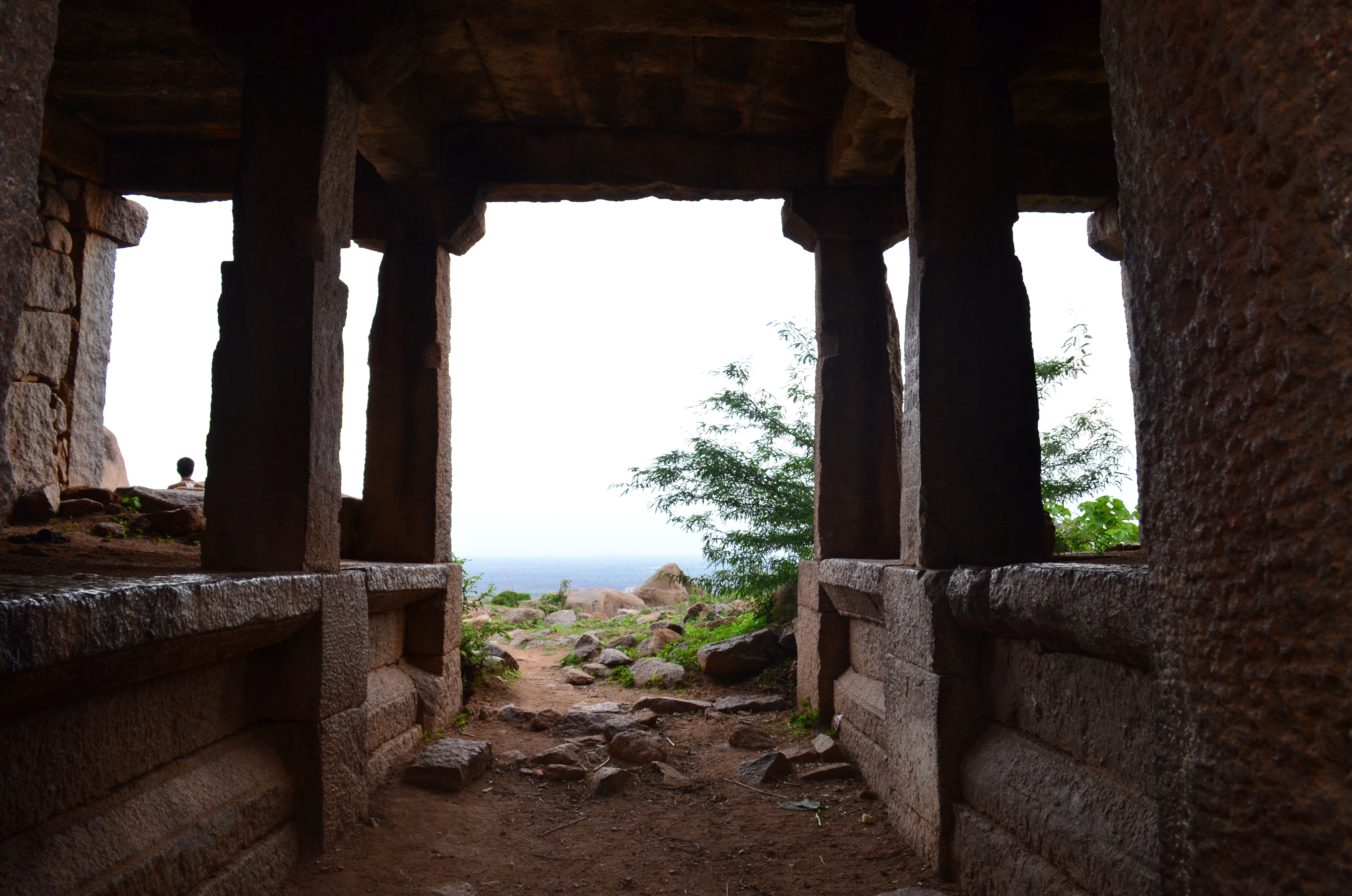 Ruined fort and buildings therein except Ramazan masjid